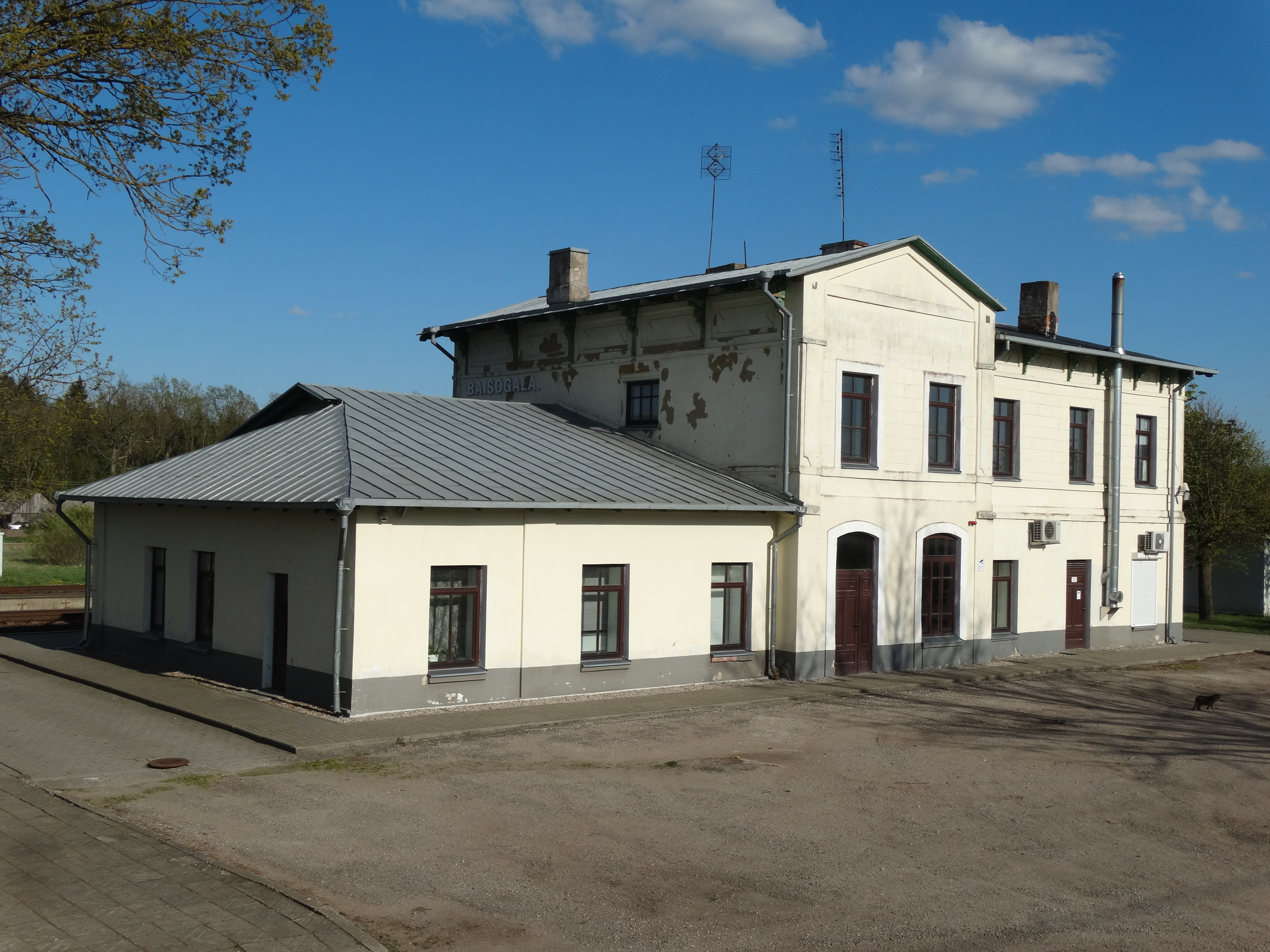 Baisogala, by railroad, Radviliškis District, Lithuania